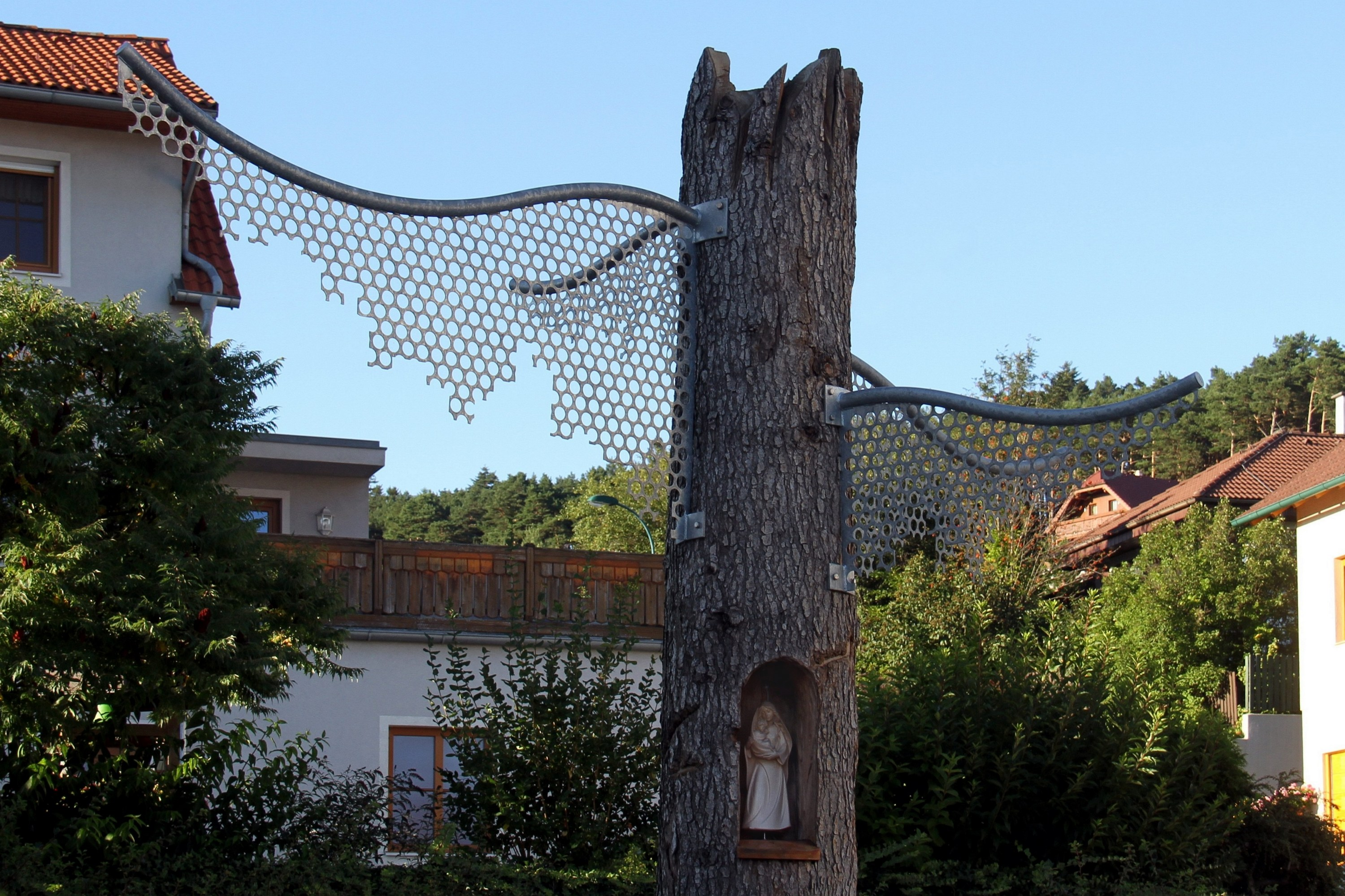 Municipality Hollenthon in Lower Austria. – The photo shows